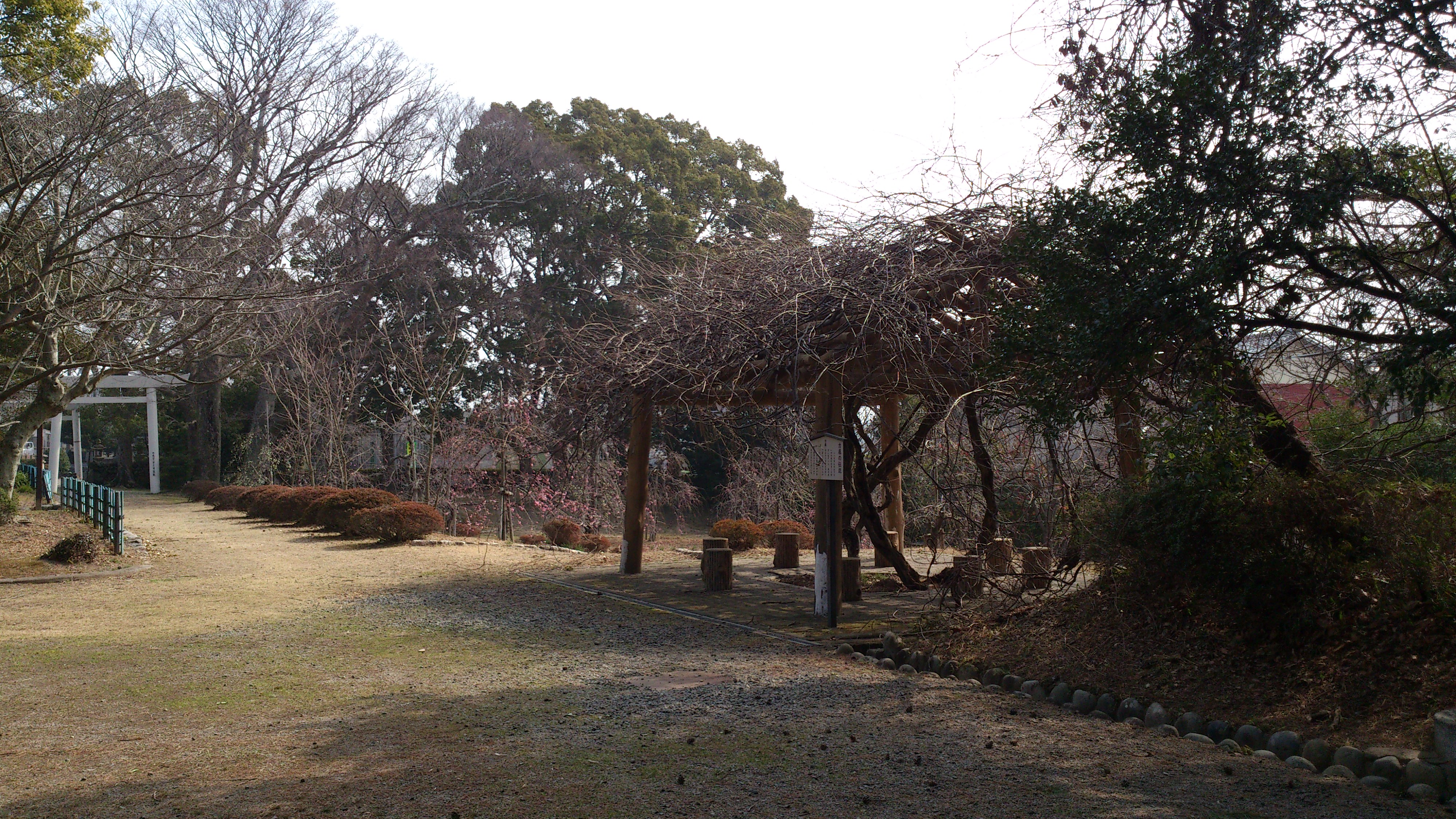 This is Rikyuin park in Ise, Mie, Japan.